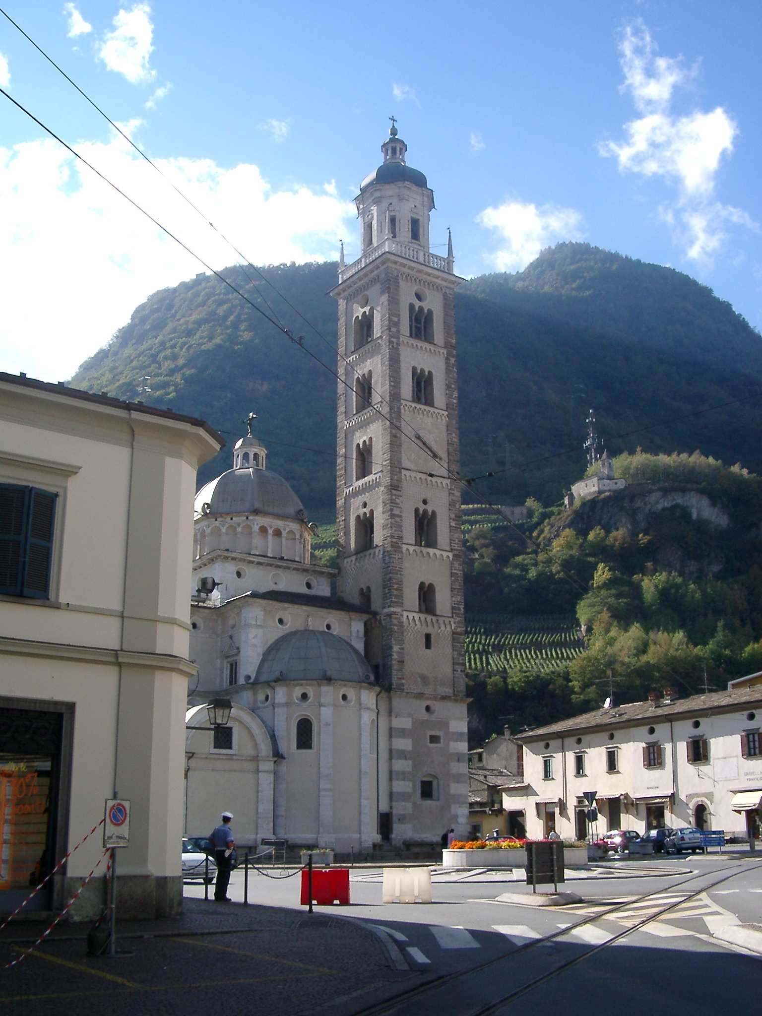 Basilica in Tirano, Italy